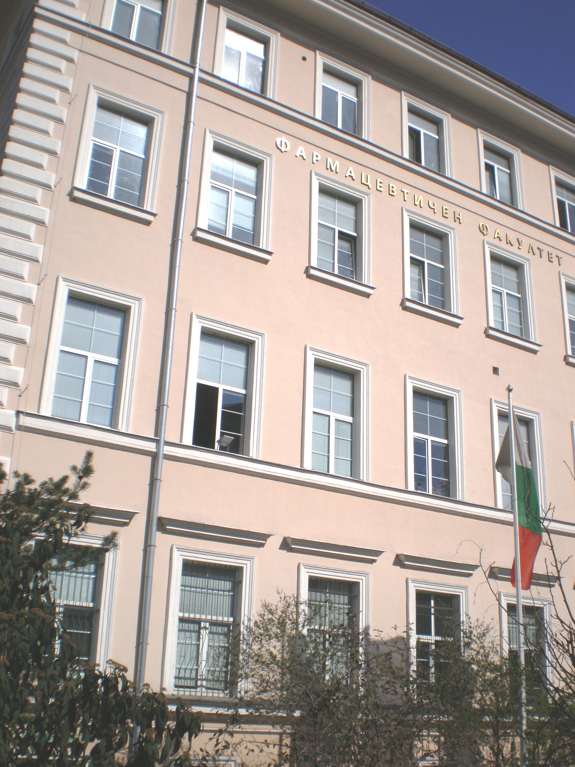 Faculty of Pharmacy, Sofia, Bulgaria